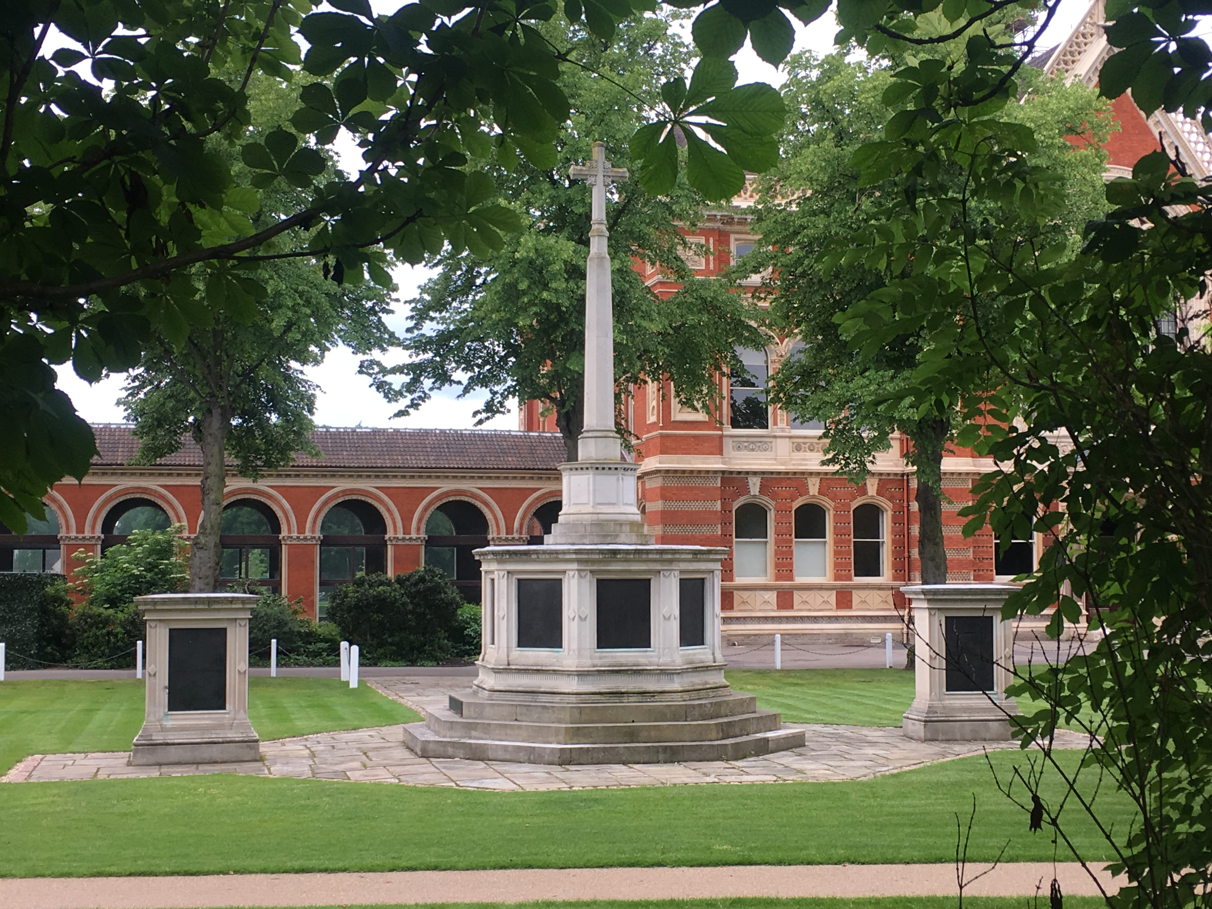 Dulwich College War Memorial Wikidata has entry Q26672953 with data related to this item.